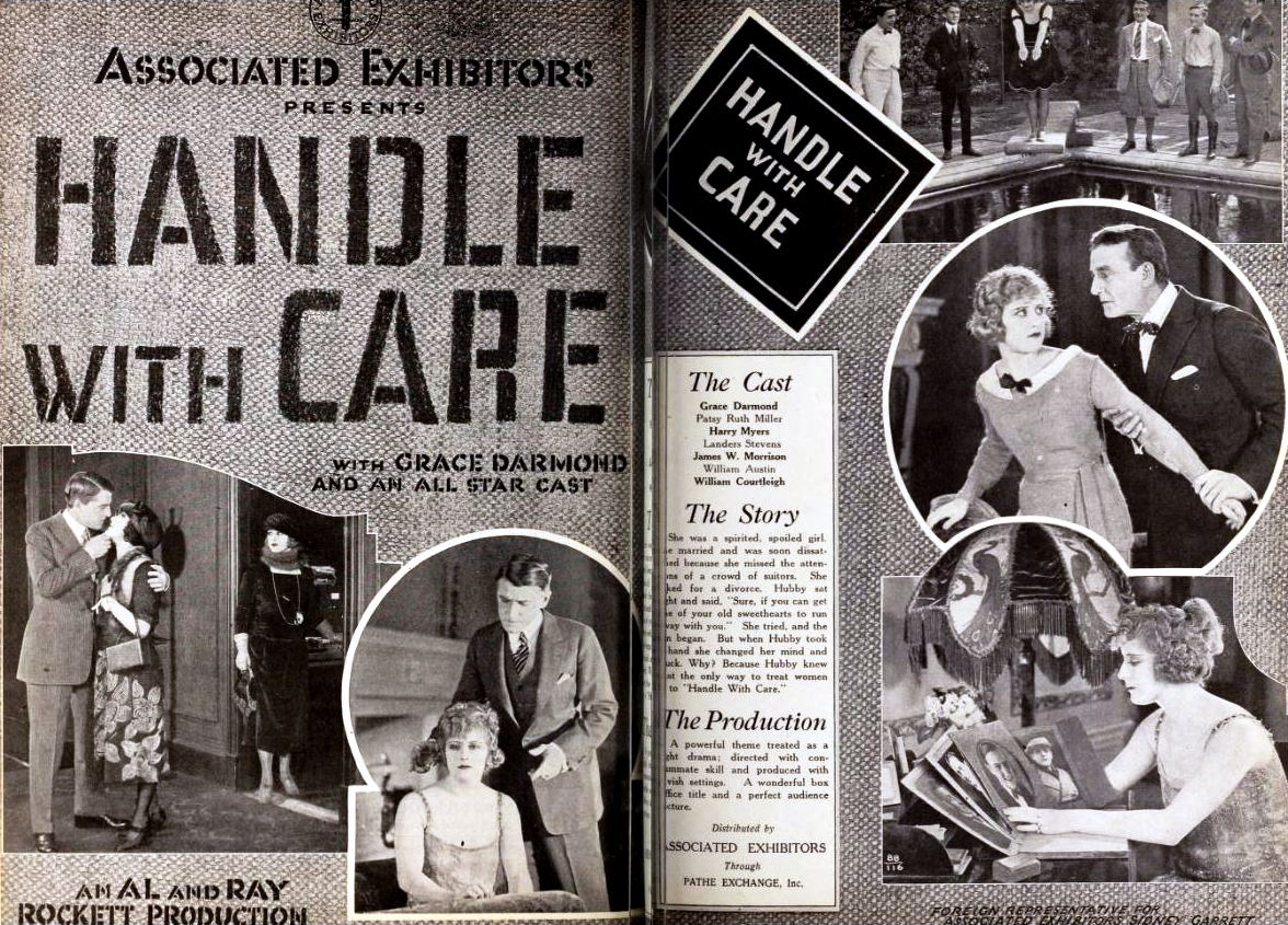 Advertisement for the American comedy film Handle with Care (1922) with Grace Darmond and Landers Stevens, on pages 16 and 17 of the February 4, 1922 Exhibitors Herald.